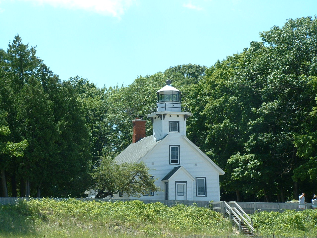 Mission Point Lighthouse on Old Mission Peninsula in Grand Traverse Bay on Lake Michigan, taken July, 2005.